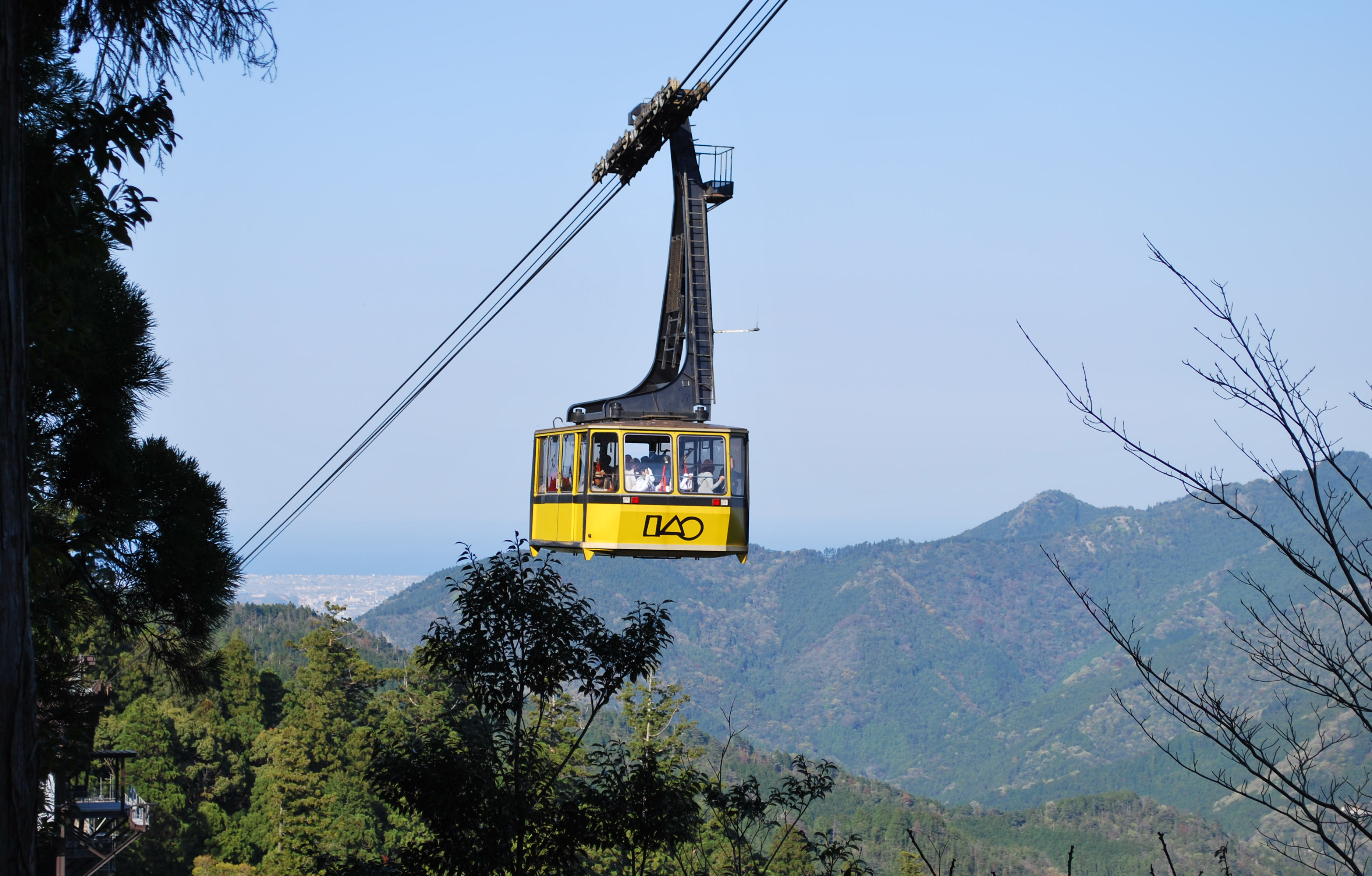 Tairyūji Ropeway